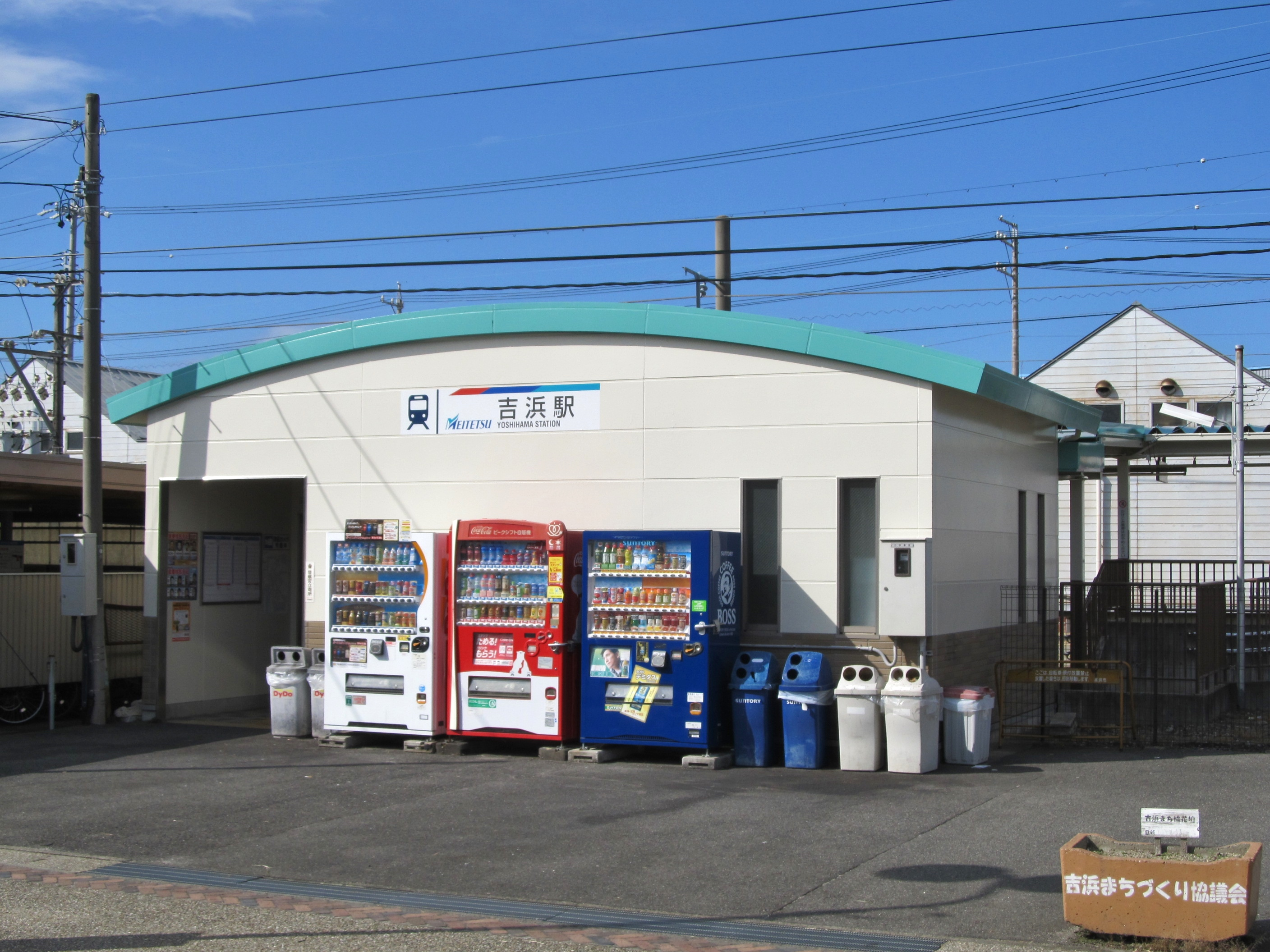 Nagoya Railroad Mikawa Line Yoshihama Station Building